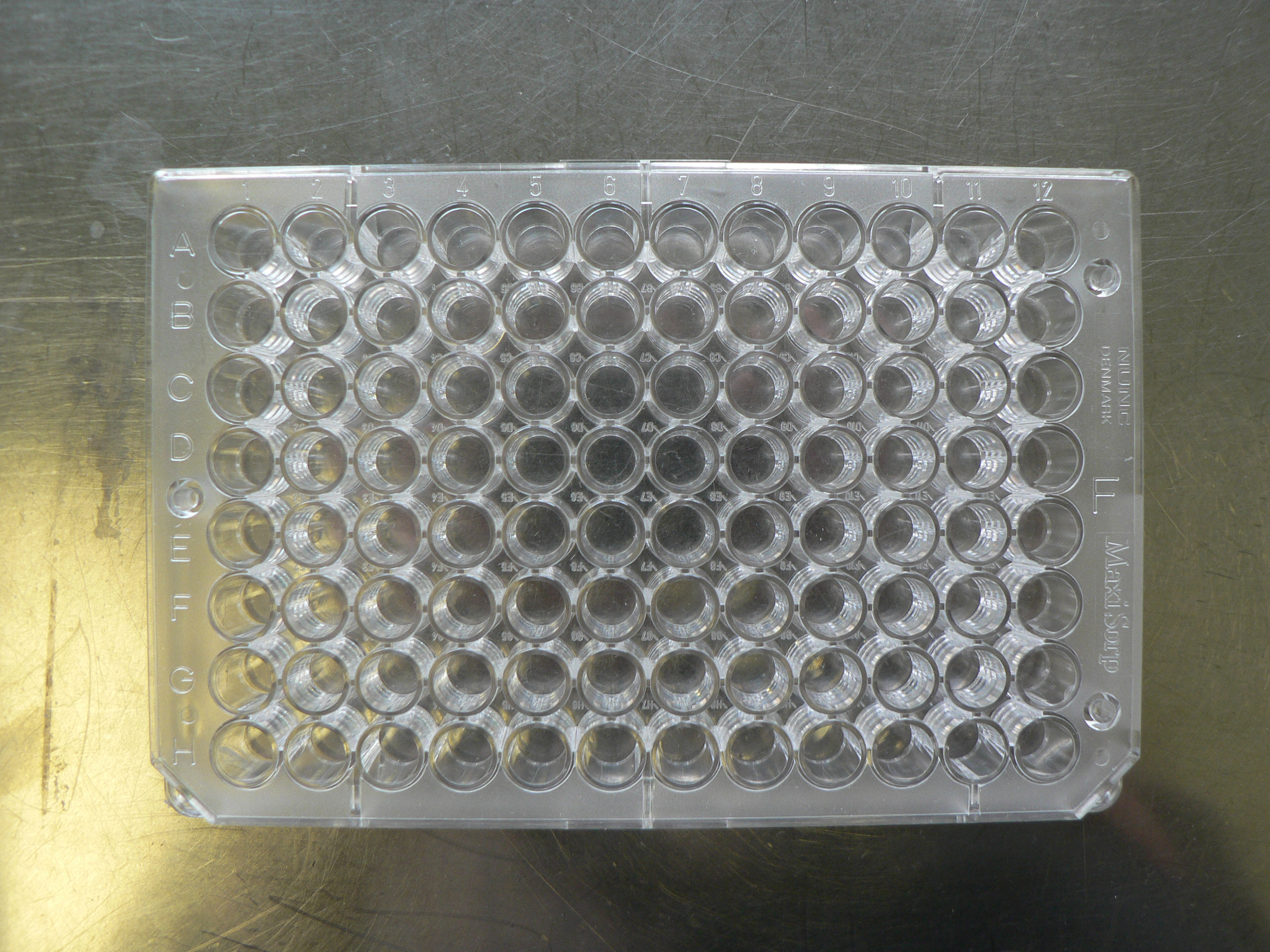 own picture